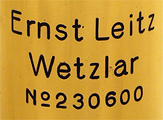 Signature of an antique Leitz microscope made in 1924